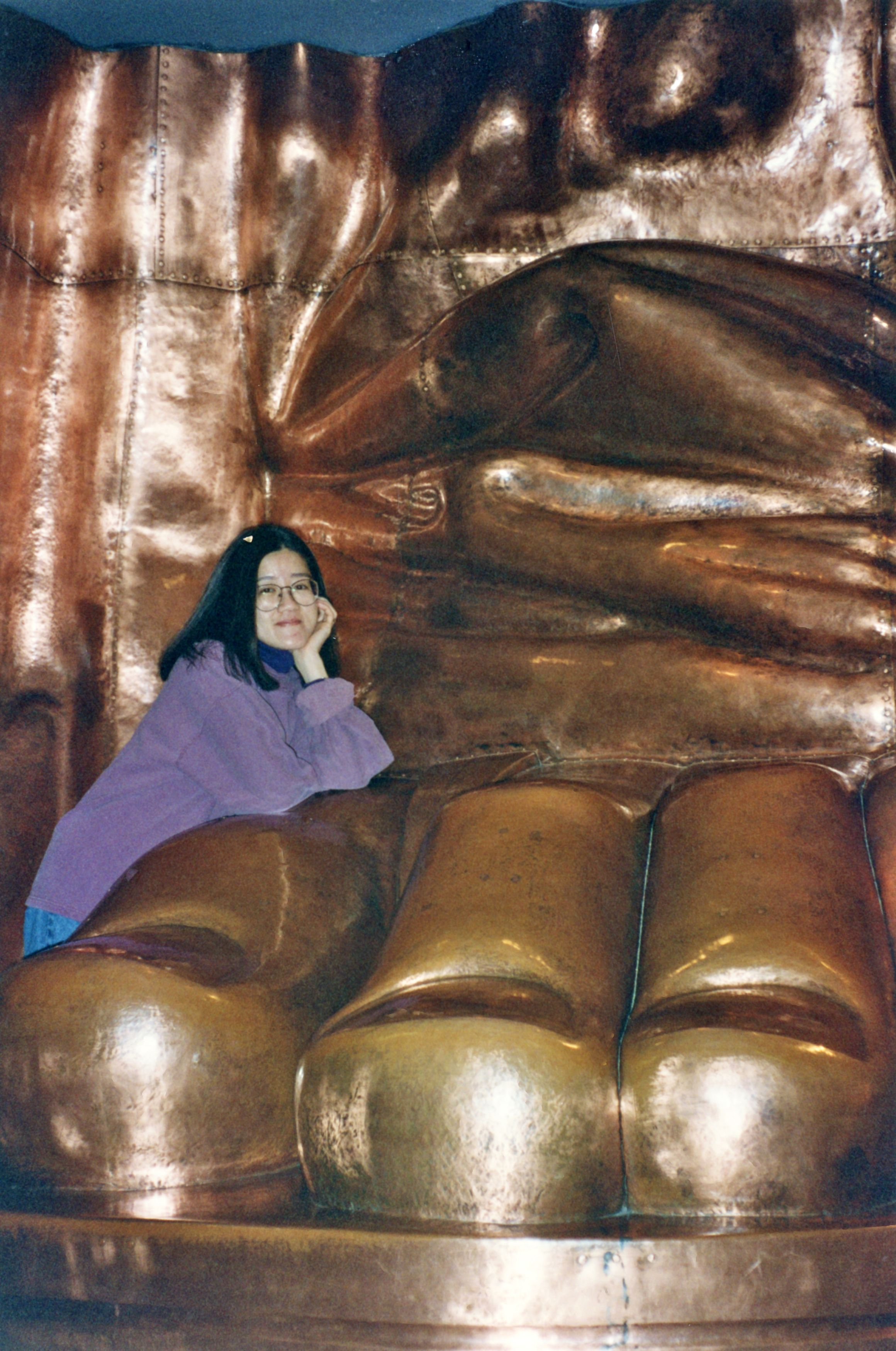 Woman leaning on the bare toes of the Statue of Liberty